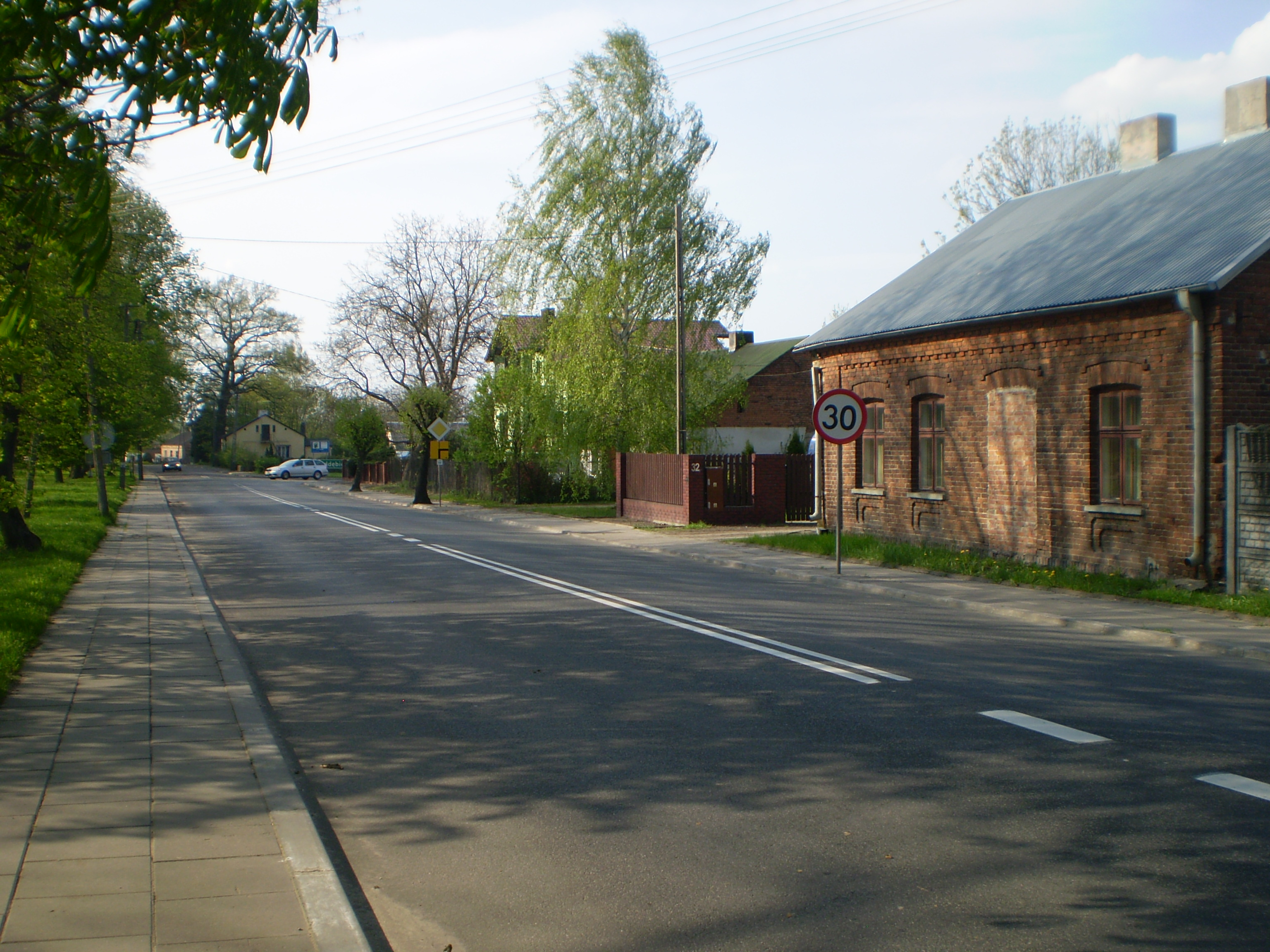 Zadzim